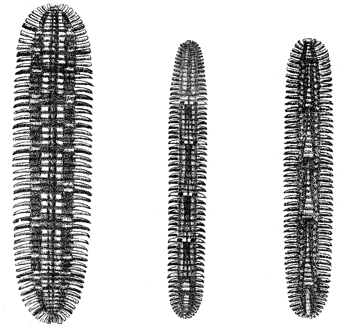 Left: Platydesmus perpictus Pocock, 1910, Middle: Platydesmus analis Pocock, 1910, Right: Platydesmus triangulifer Pocock, 1910. From Pocock (1910).